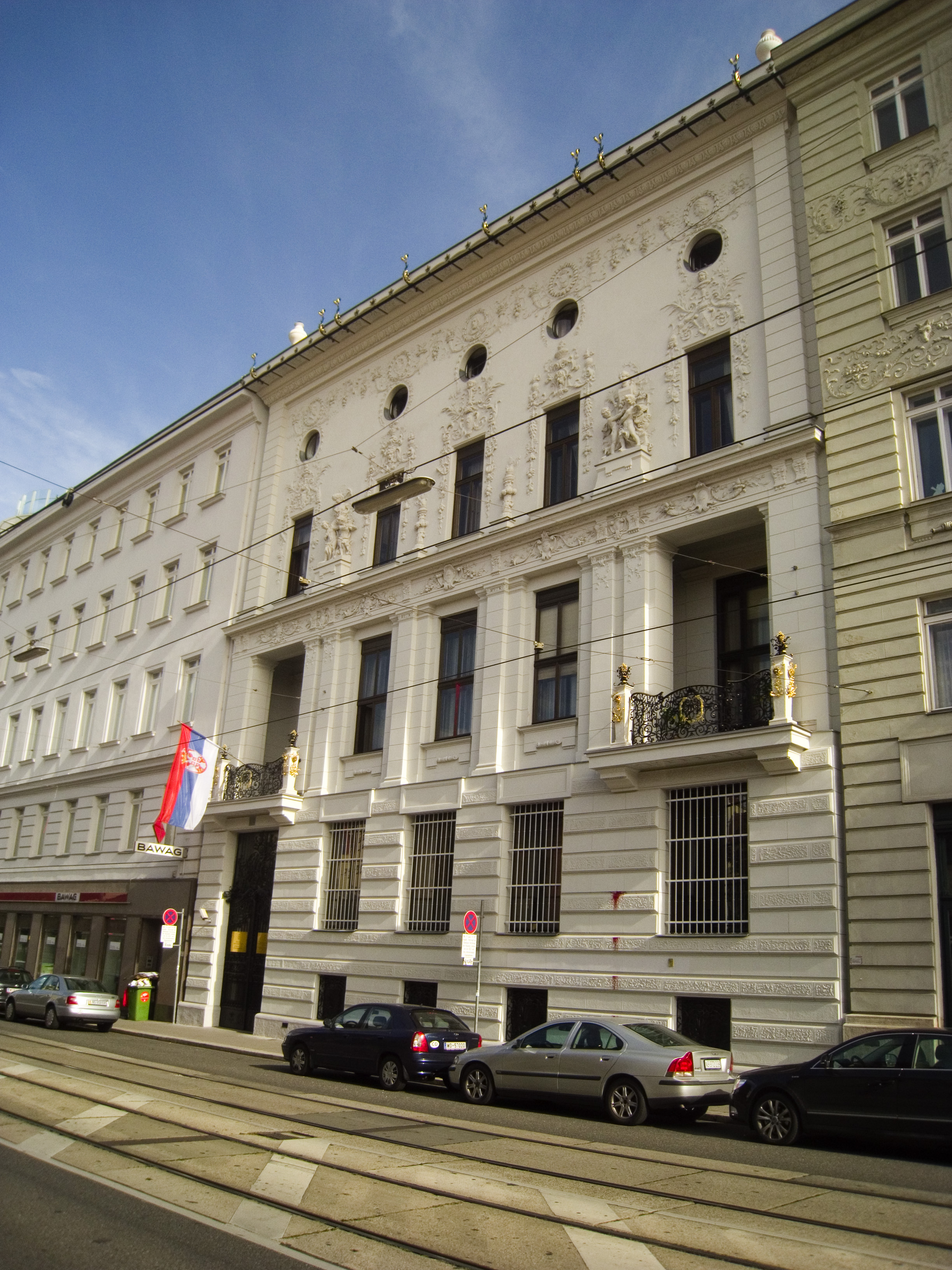 Embassy of Serbia, Vienna. Palais Hoyos.